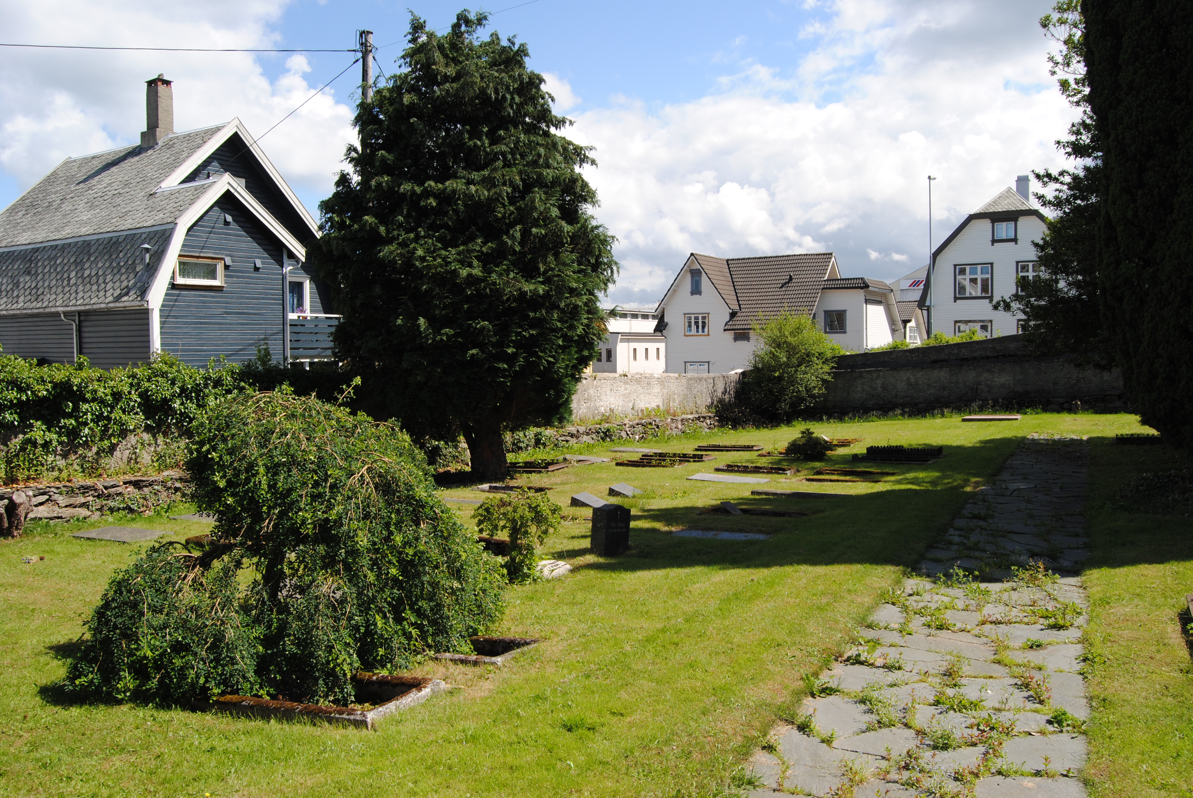 The new quaker cemetary in Stavanger, Norway